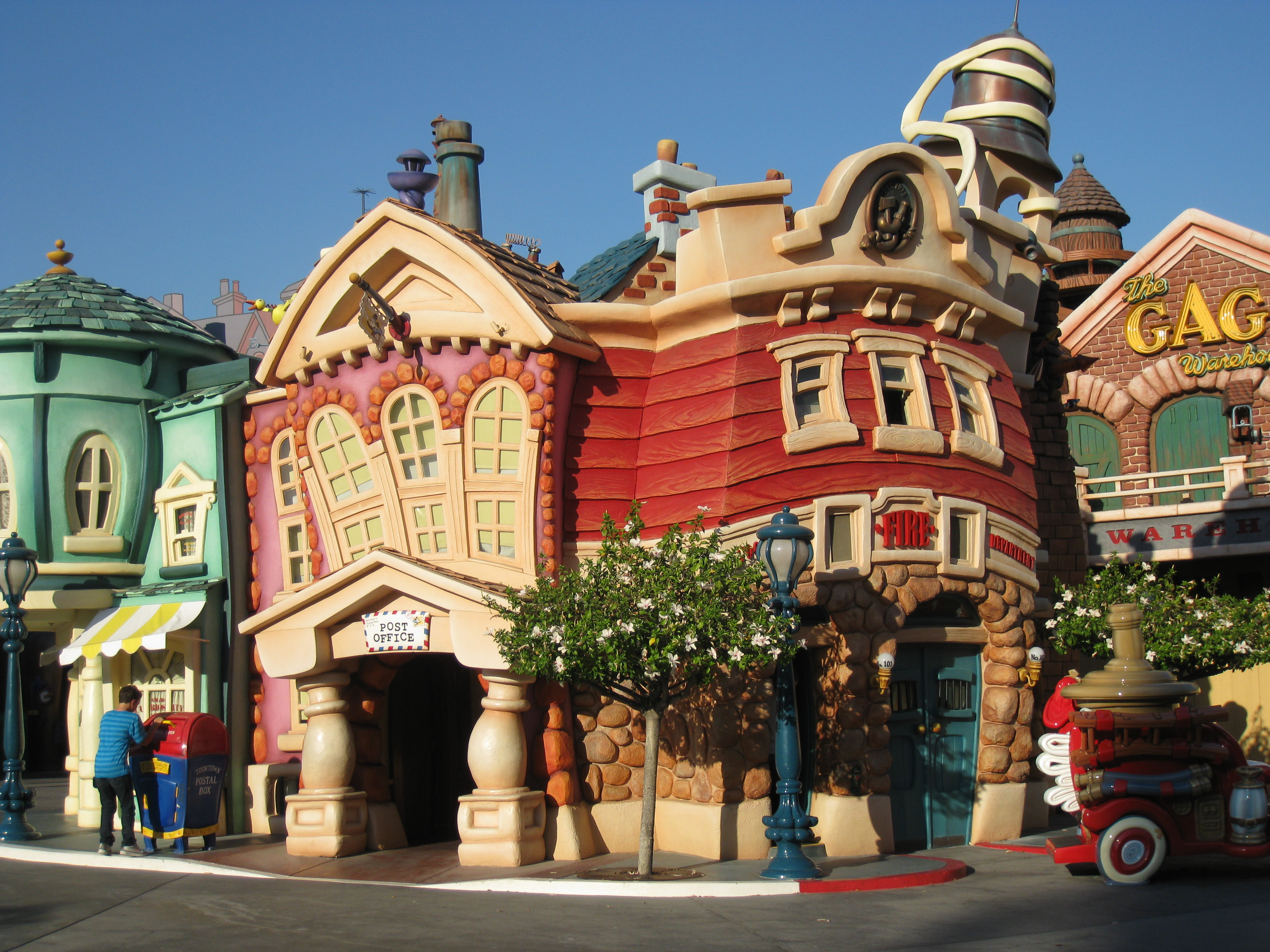 Disneyland Toontown